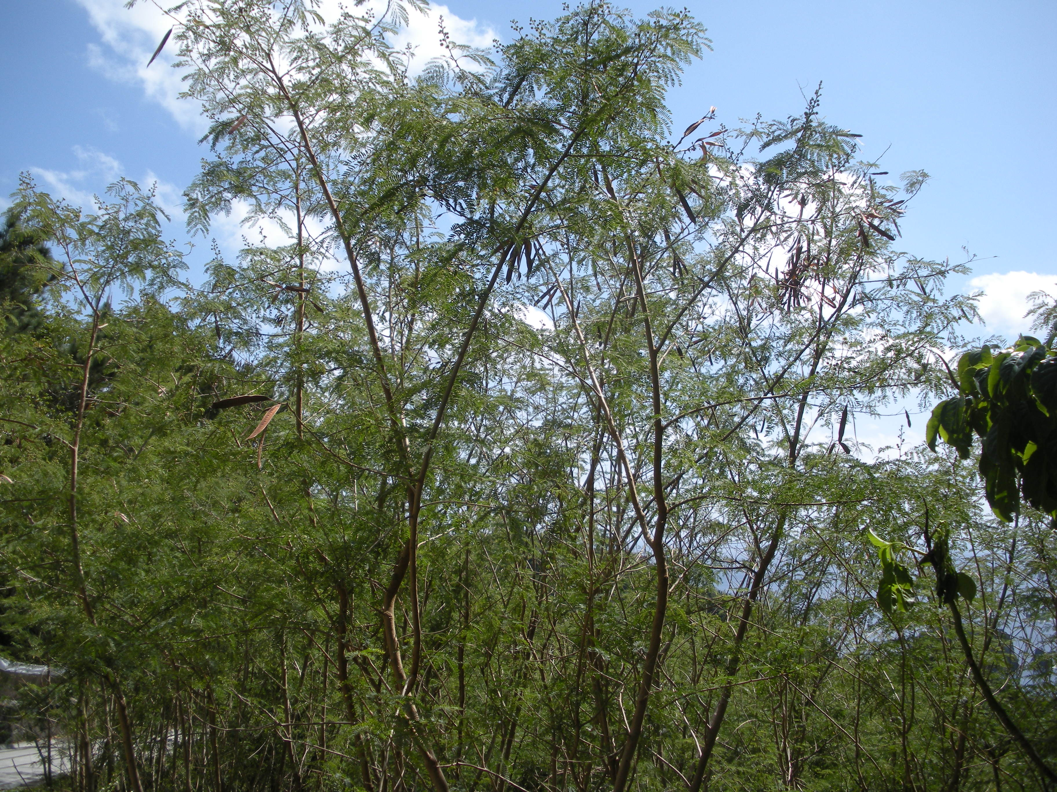 Leucaena leucocephala in Japan Bonin Islands Hahajima Island